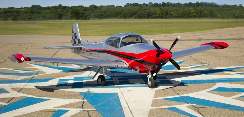 A Newly Restored 1947 North American Navion at South St Paul Airport, MN, USA by Sierra Hotel Aero